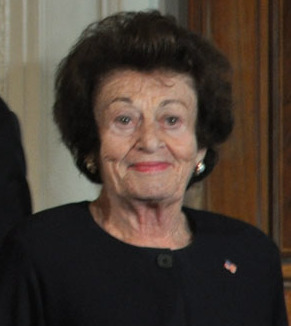 Medal of Freedom winners John Sweeney, Gerda Weissmann Klein and Yo-Yo Ma walk into the ceremony.